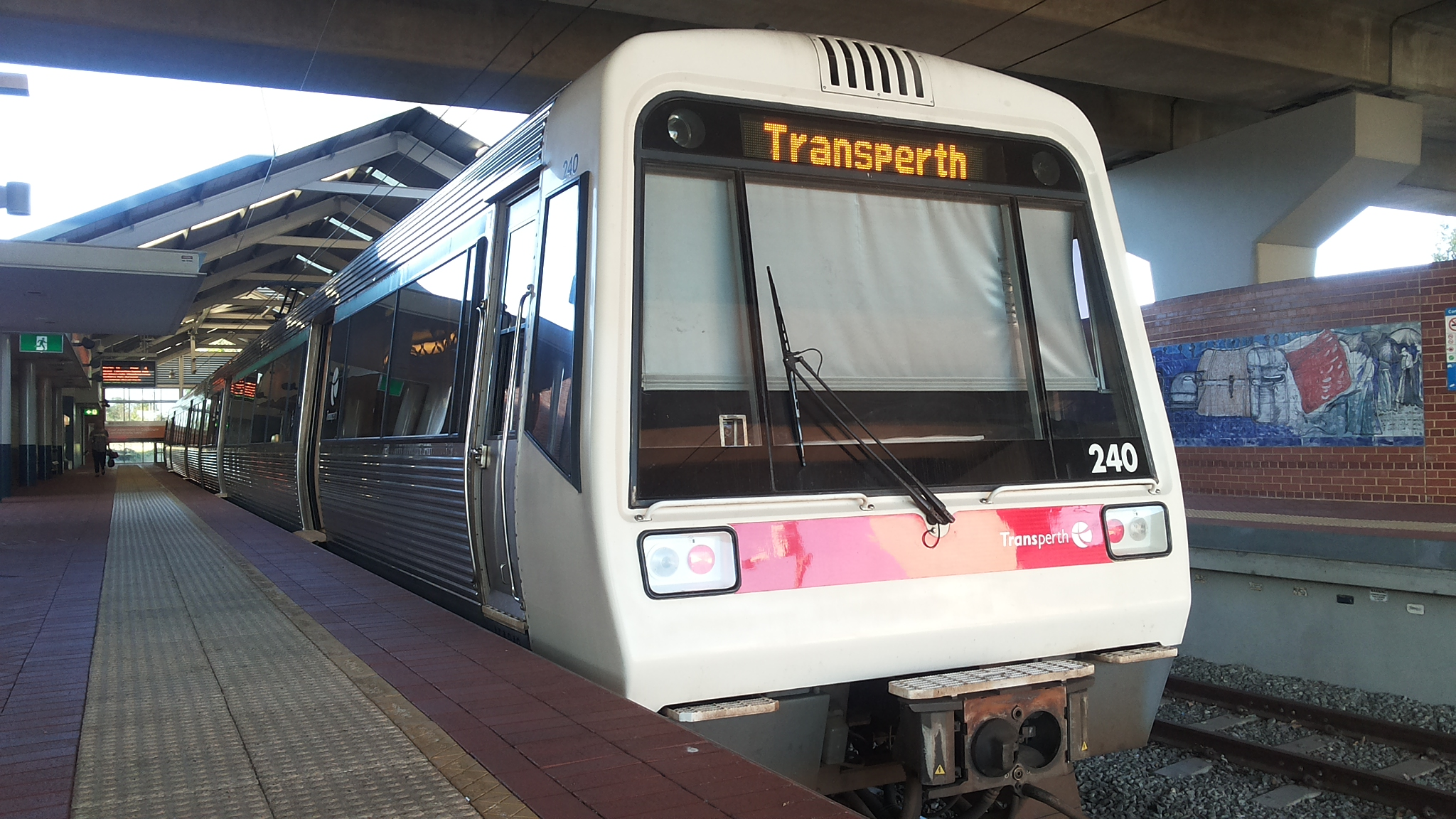 Transperth's Walkers/ABB A-Series 40, operated by Transperth Trains; seen at Thornlie Station prior to the AM peak.